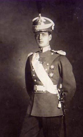 Grand Duke Dmitri Pavlovich Romanov, around 1910